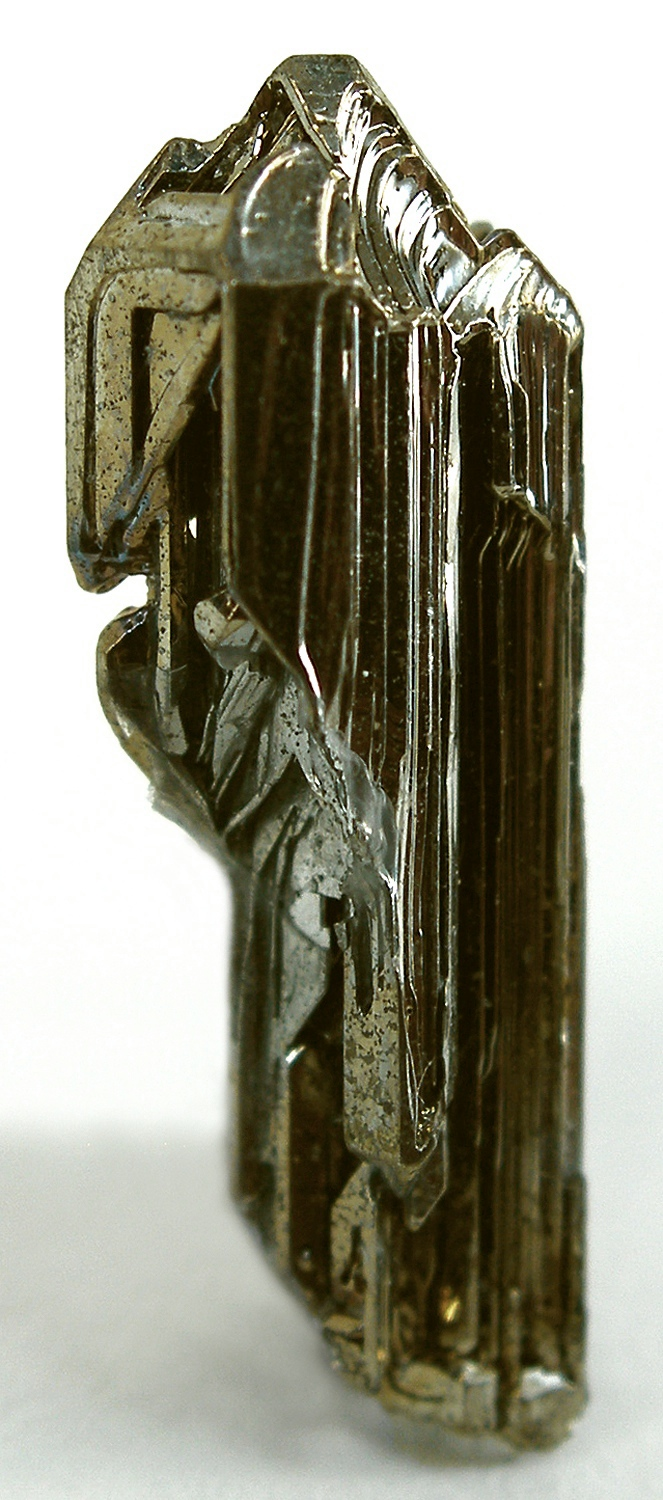 Tellurium Locality: Emperor Mine, Vatukoula, Tavua Gold Field, Viti Levu, Fiji (Locality at ) Size: thumbnail, 1.8 x 0.6 x 0.4 cm Tellurium (native) A stunning, superior crystal of native tellurium, quite simply so sharp it looks carved. I cannot imagine a better example of the species, on a gram per grambasis. This quality was found ONLY at this locality, and few specimens have ever been exported to our market over the years. A thumbnail so well-sized, so displayable, and pristine all around, is a thing of rarity and among my favorite of mineral specimens